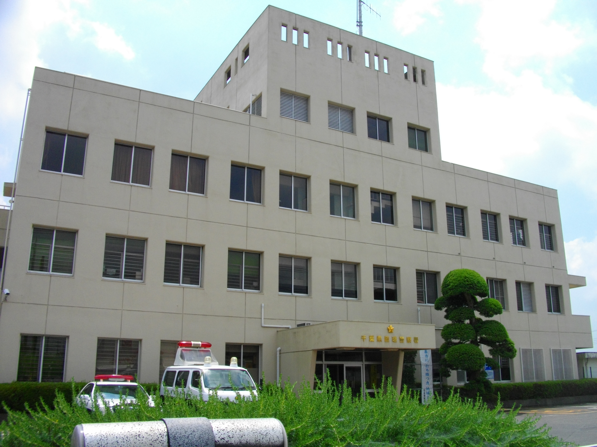 Sosa Police Station (Chiba)